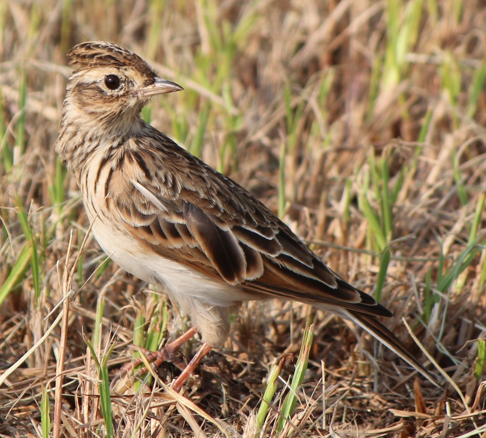 Alauda arvensis japonica (Eurasian Skylark) in Japan.